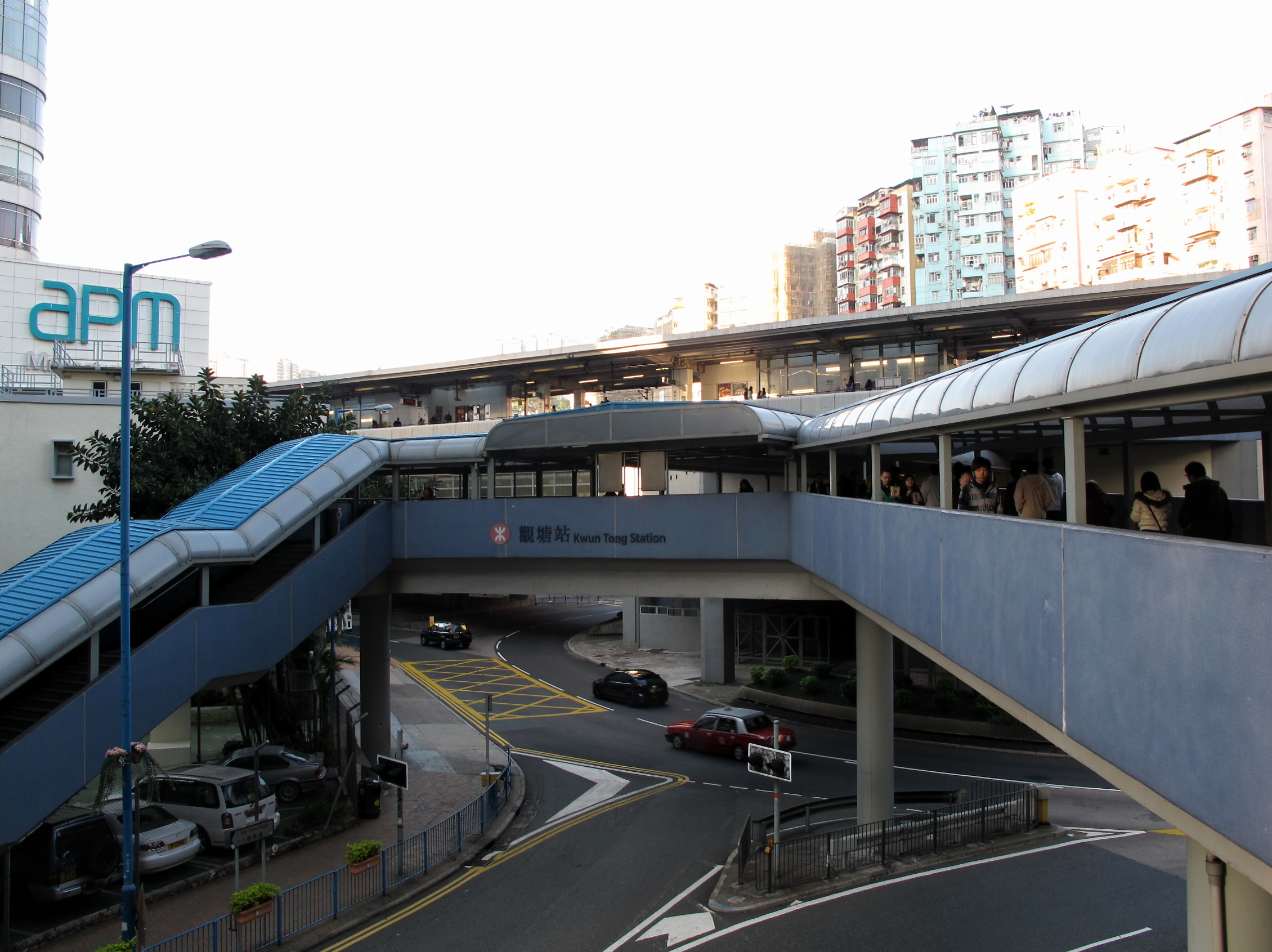 Kwun Tong Station 觀塘站外觀